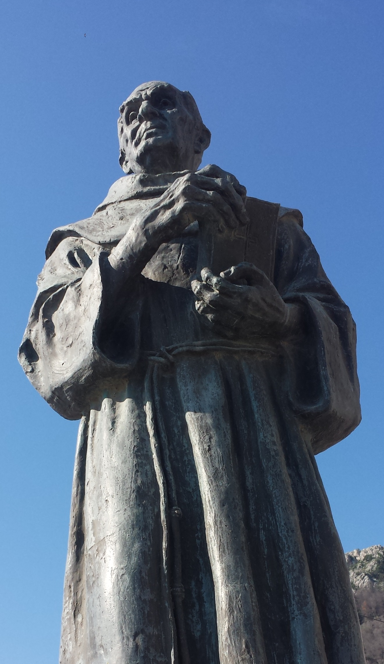 Zef Pllumi statue in Shengjin